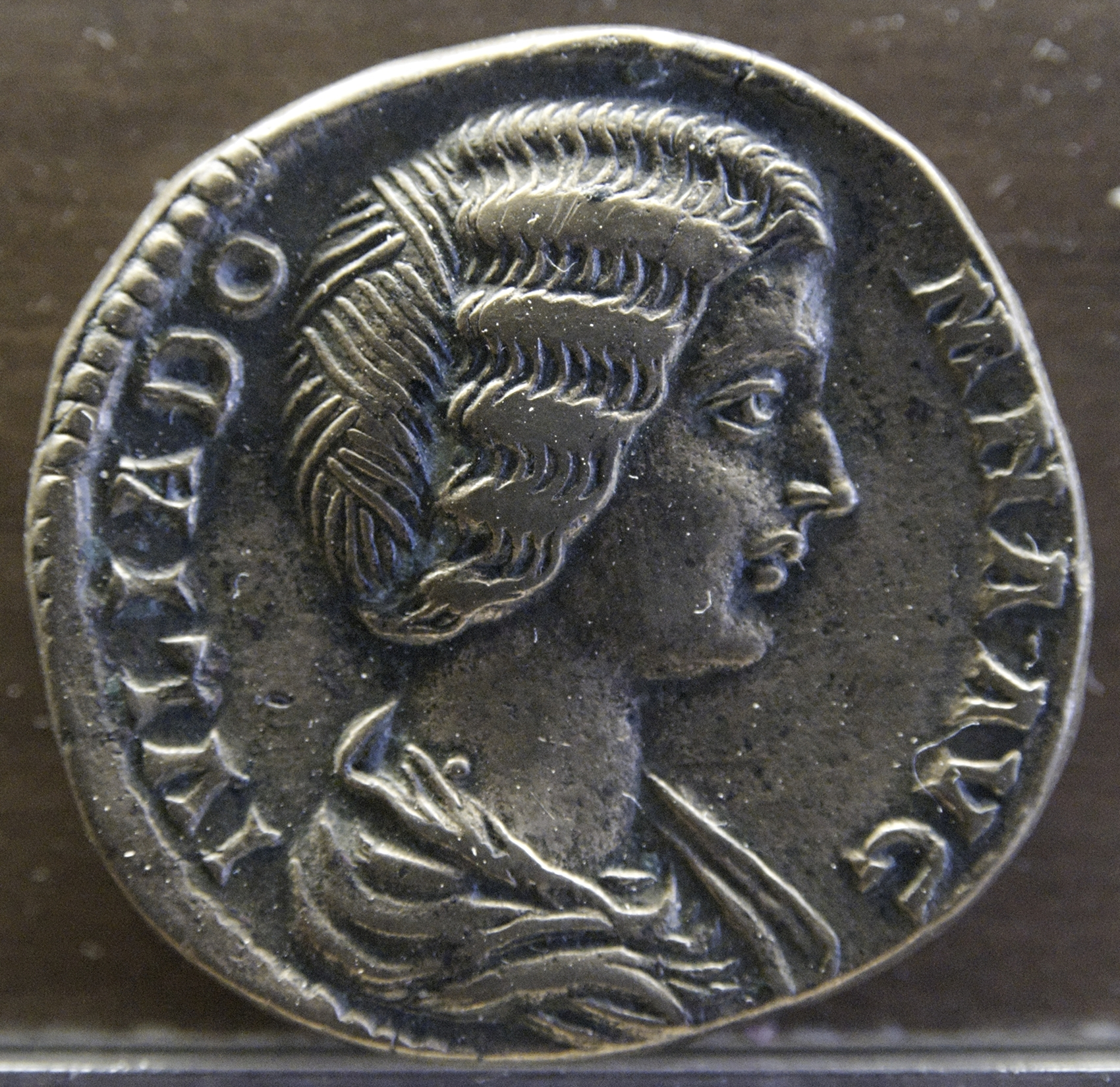 Coin with Julia Domna.